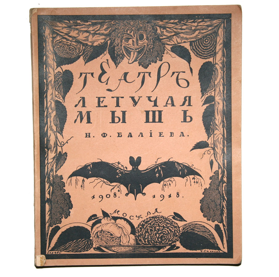 Teather «Die Fledermaus», book of Nikolai Efros